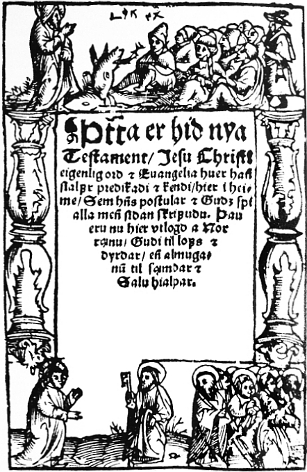 Frontispiece of the first Icelandic translation of the New testament printed in Roskilde in 1540.